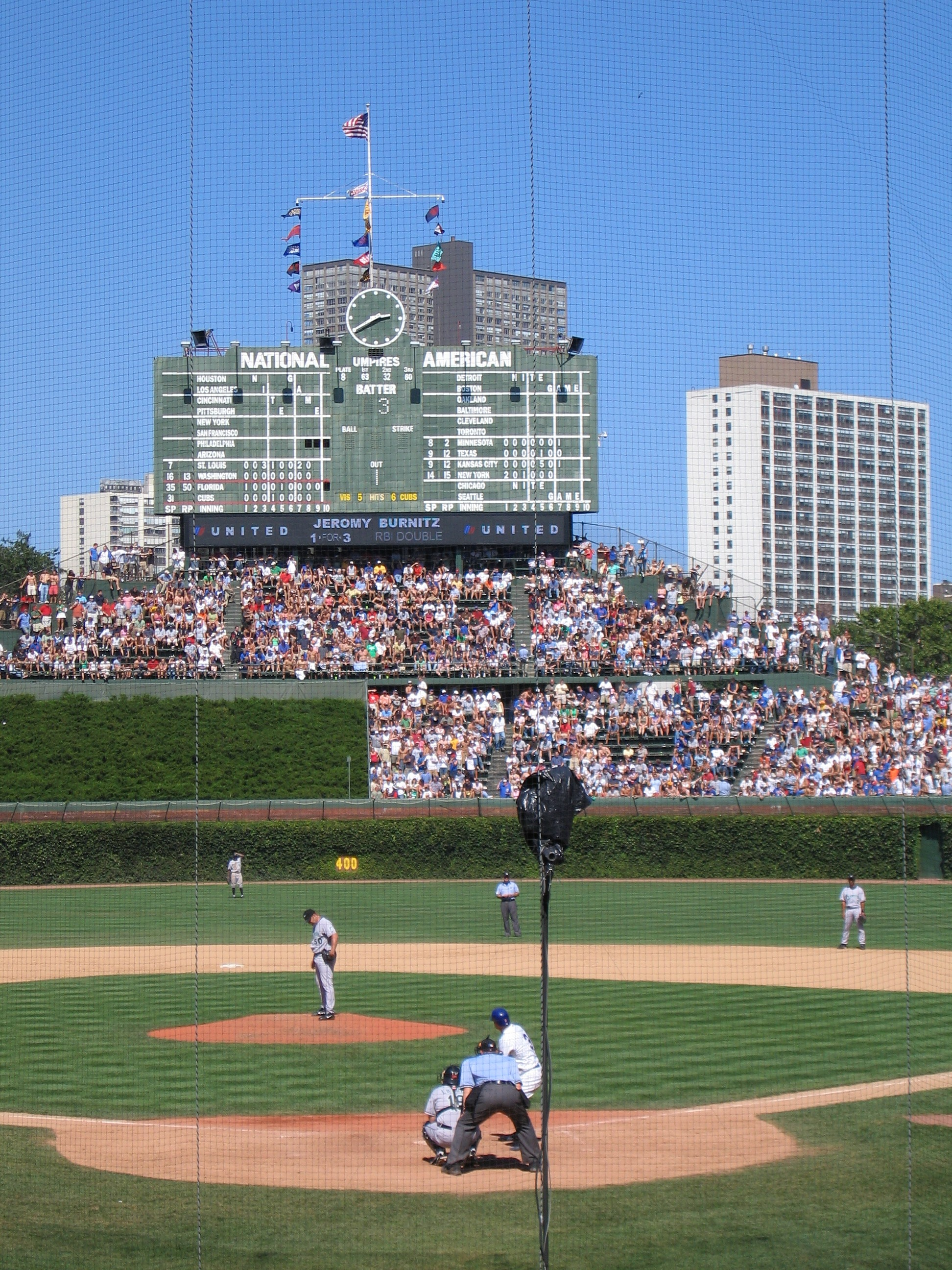 Picture taken of Wrigley Field scoreboard by myself, John Lambrechts on August 27th, 2005. 23:39, 22 March 2006 . . Thechitowncubs . .1944 x 2592 (1,958,478 bytes)